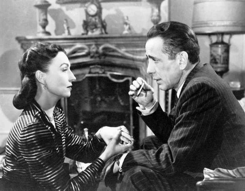 Promotional still for the 1947 film Dark Passage with Agnes Moorehead and Humphrey Bogart